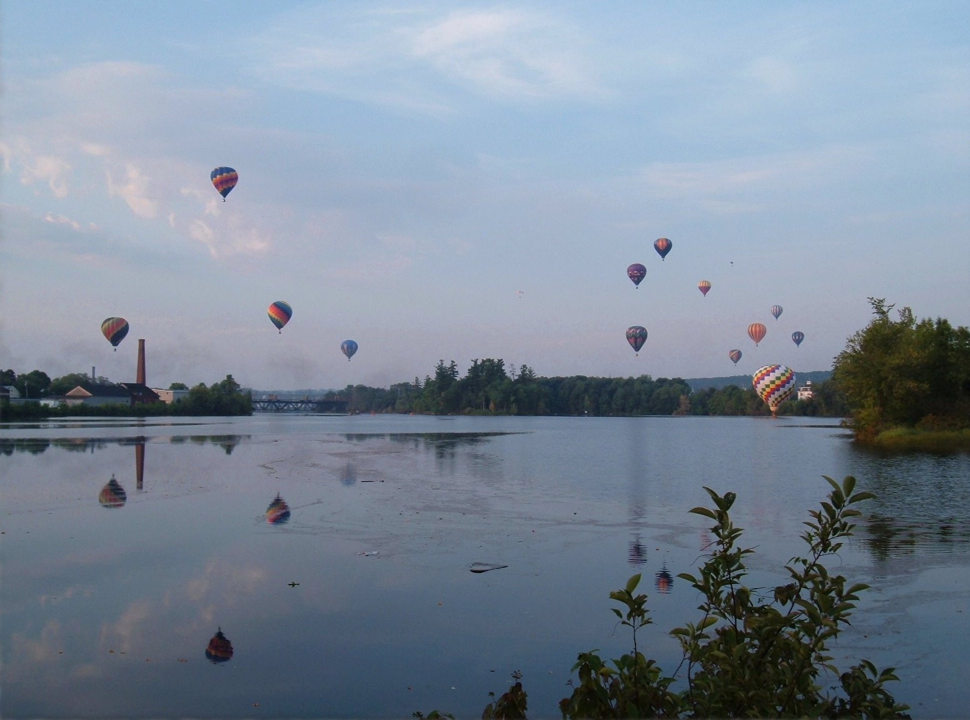 This is from the Lewiston-Auburn balloon festival in Maine on August 19, 2006. The river they are flying over is the Androscoggin, which seperates the two cities.